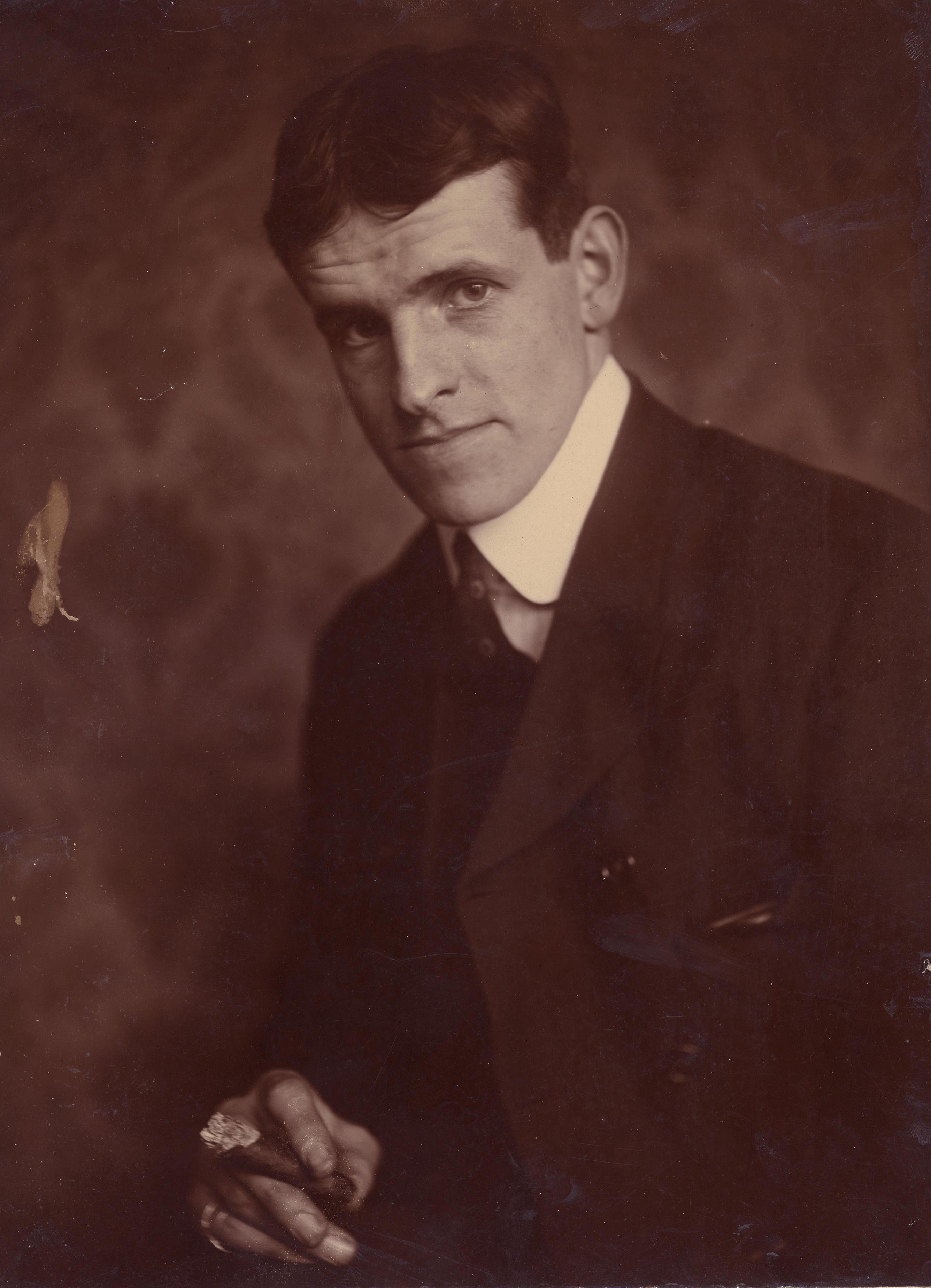 Portrait of Yeats holding a cigar.